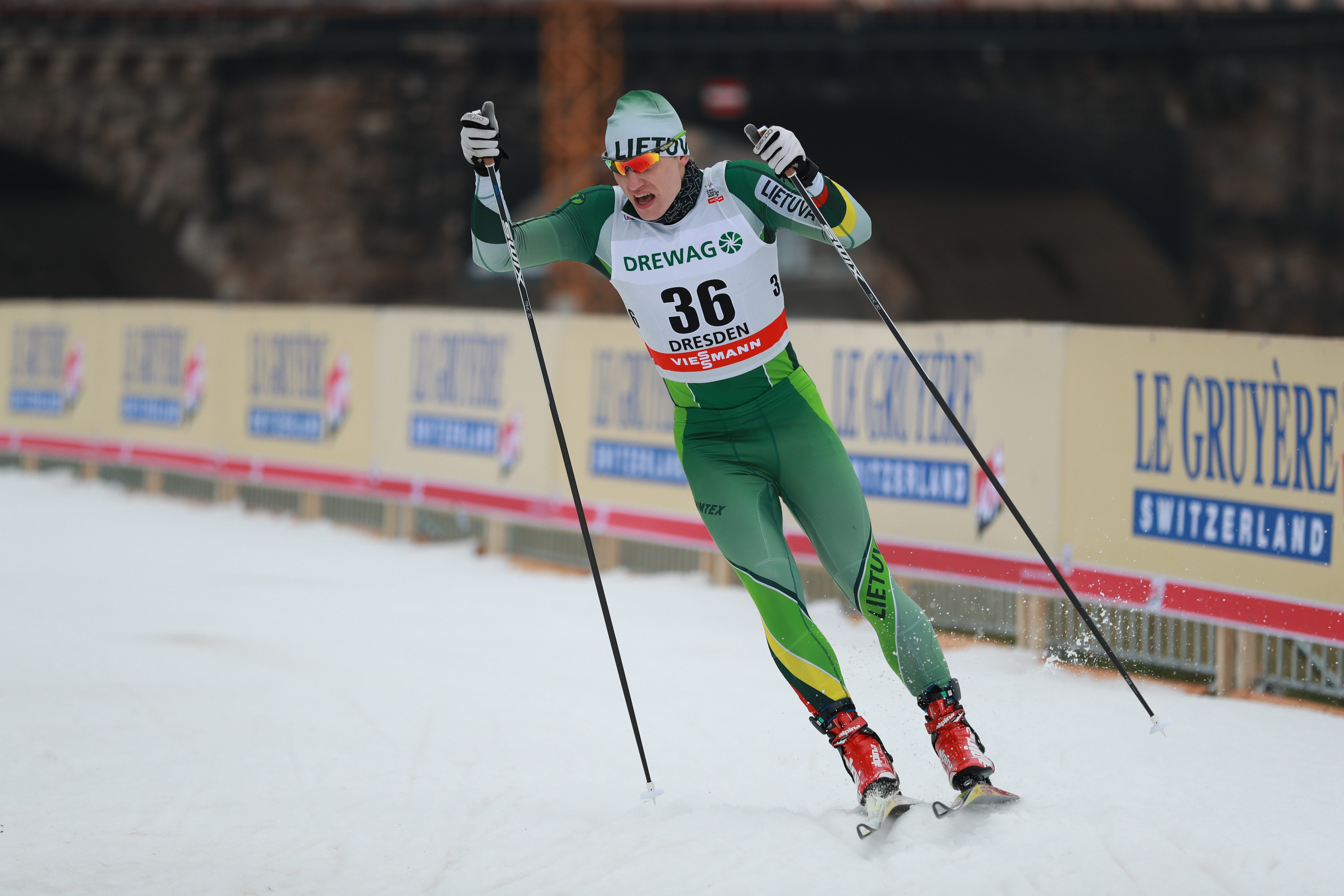 Mens Prolog at the FIS Cross-Country World Cup Dresden 2018: Modestas Vaiciulis